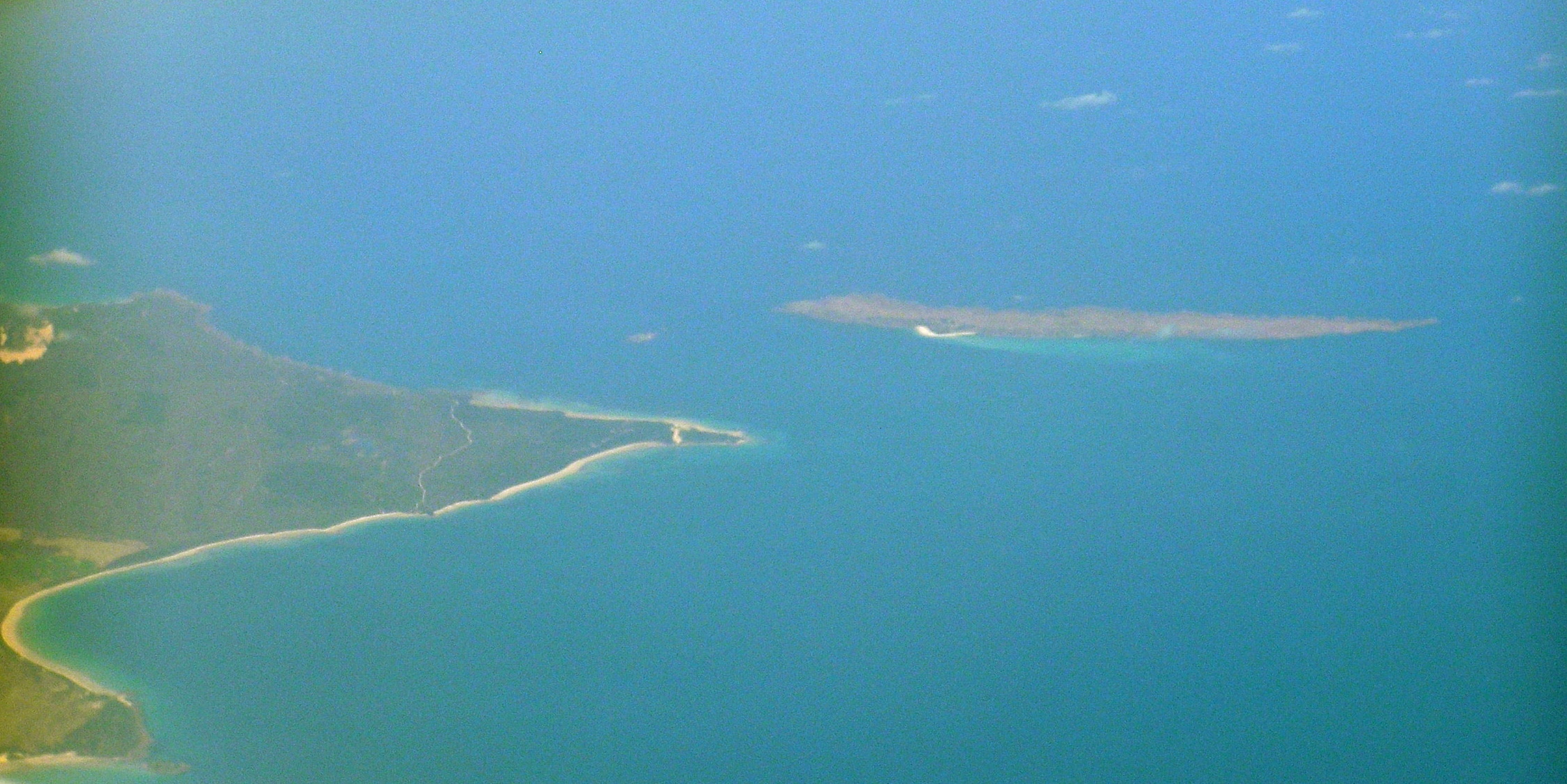 Waterhouse Island Tasmania with Waterhouse point, Tomahawk Point (and island) looking west